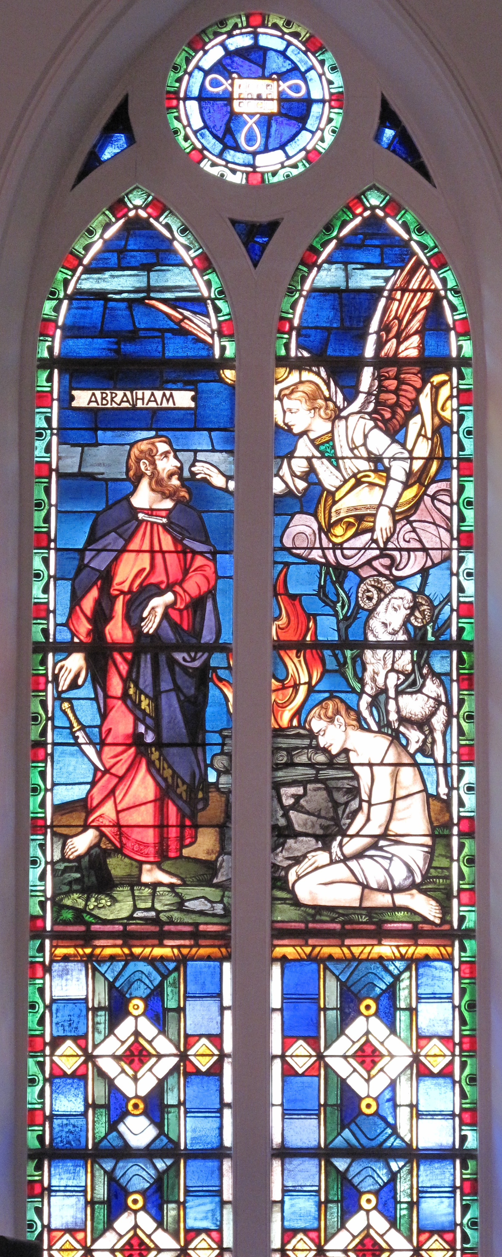 Stained glass window of Abraham at St. Matthew's Lutheran Church in Charleston, SC. Franz Mayer & Co. of Munich, Germany represented by the studios of George L. Payne of Patterson, New Jersey 1966.